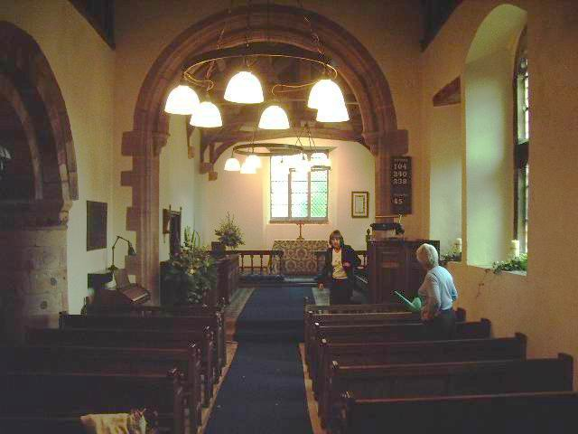 Interior of St James Church, Ormside. The two ladies were creating flower arrangements for a wedding to be held next day